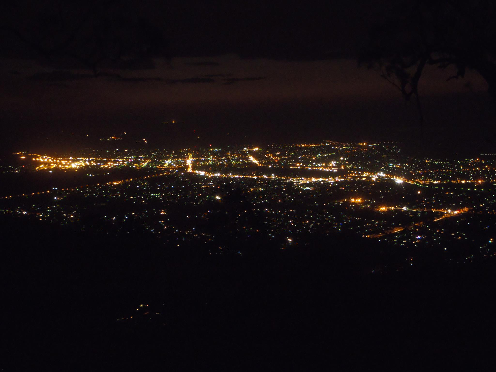 Rockhampton City at night, as viewed from Mount Archer